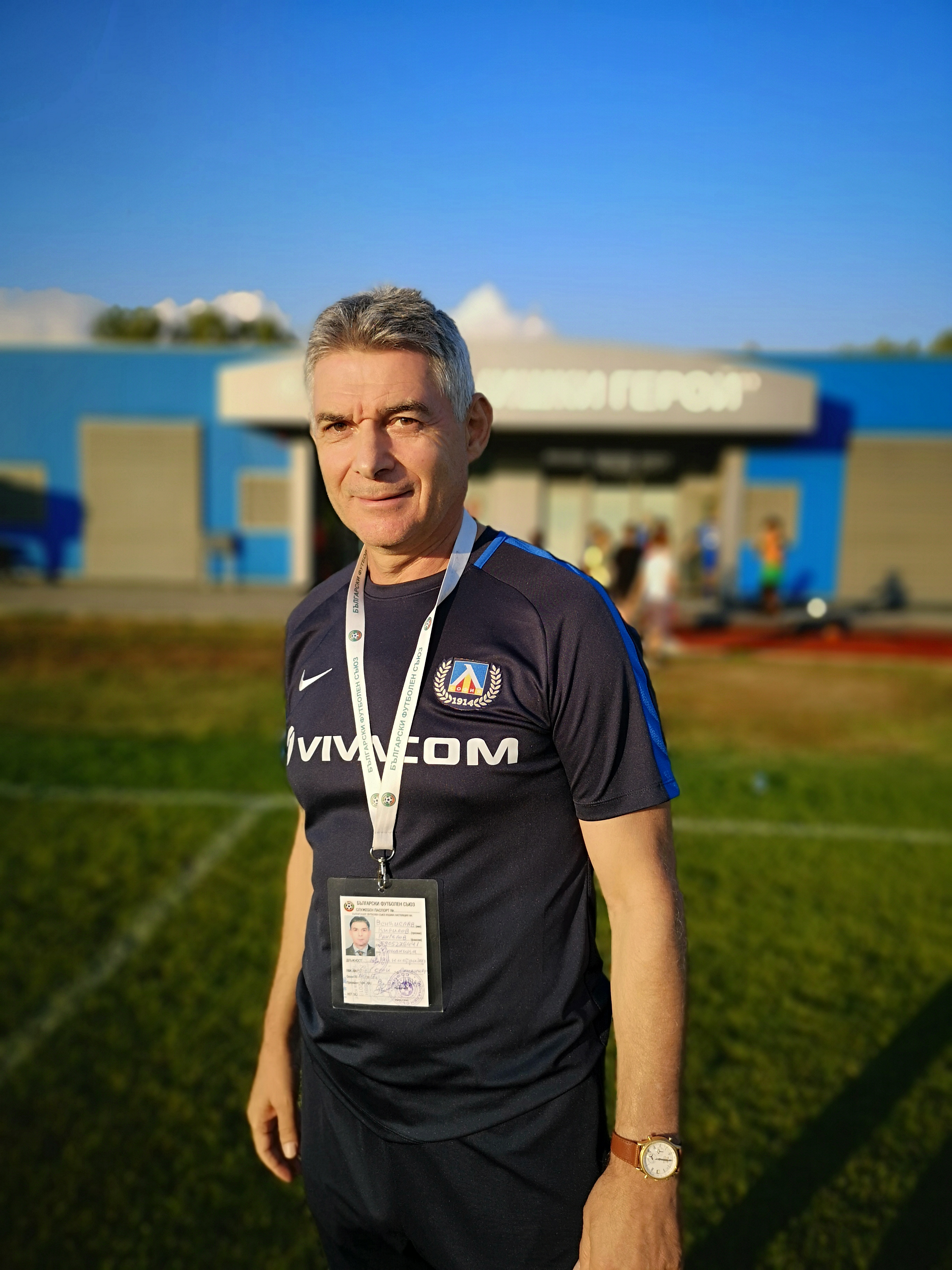 Vencislav "Venci" Rangelov - bulgarian soccer team "Slivnishki geroi" and bulgarian police national soccer team manager.